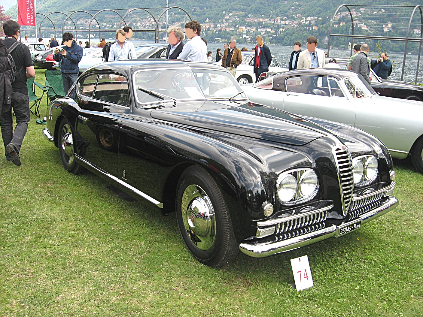 Subject:Alfa Romeo 6C 2500 SS Coupé, coachbuilding by Pininfarina Date:April 27th, 2008 Event:Concorso d’Eleganza”Villa d’Este” 2008 Place/Country: Cernobbio (CO), Italy I release all rights in the public domain.